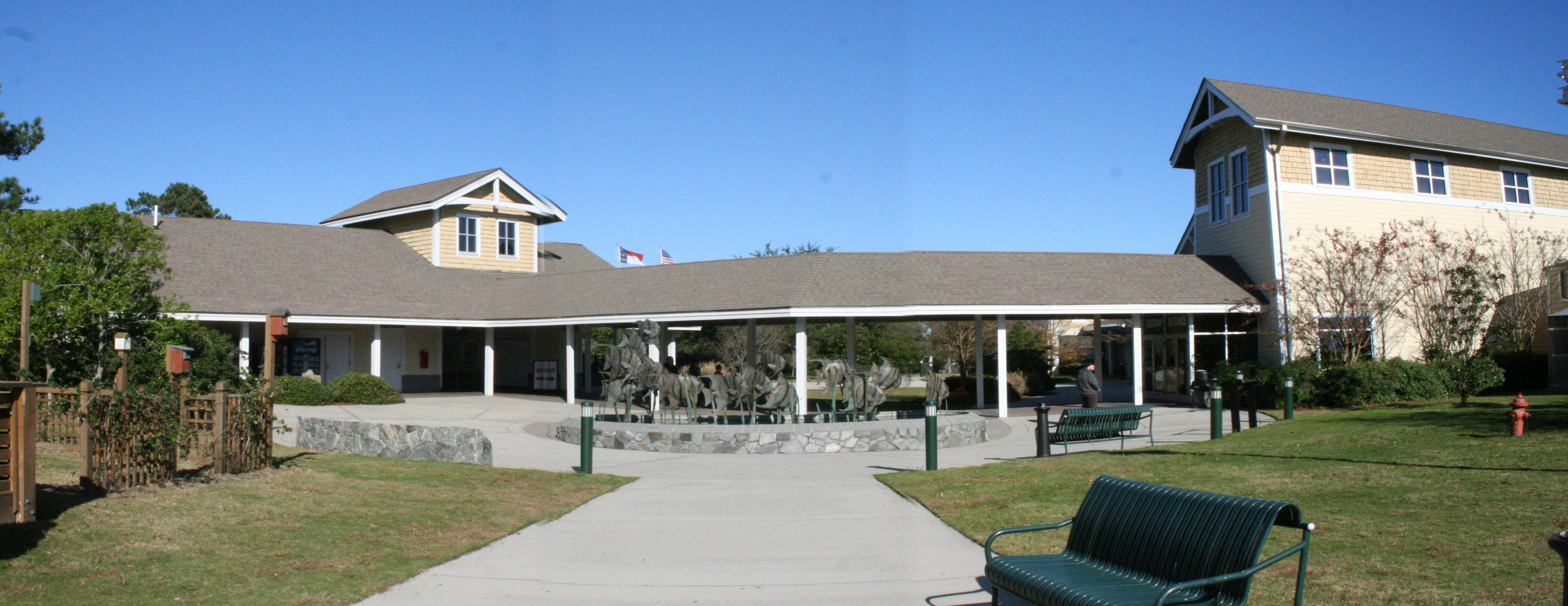 view of the entrance to the NC Aquarium on Roanoke Island from the courtyard